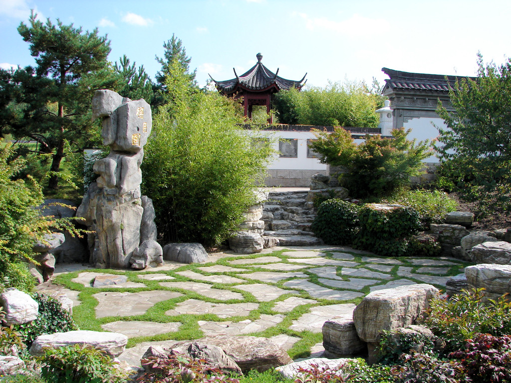 chinese garden in Erholungspark Marzahn